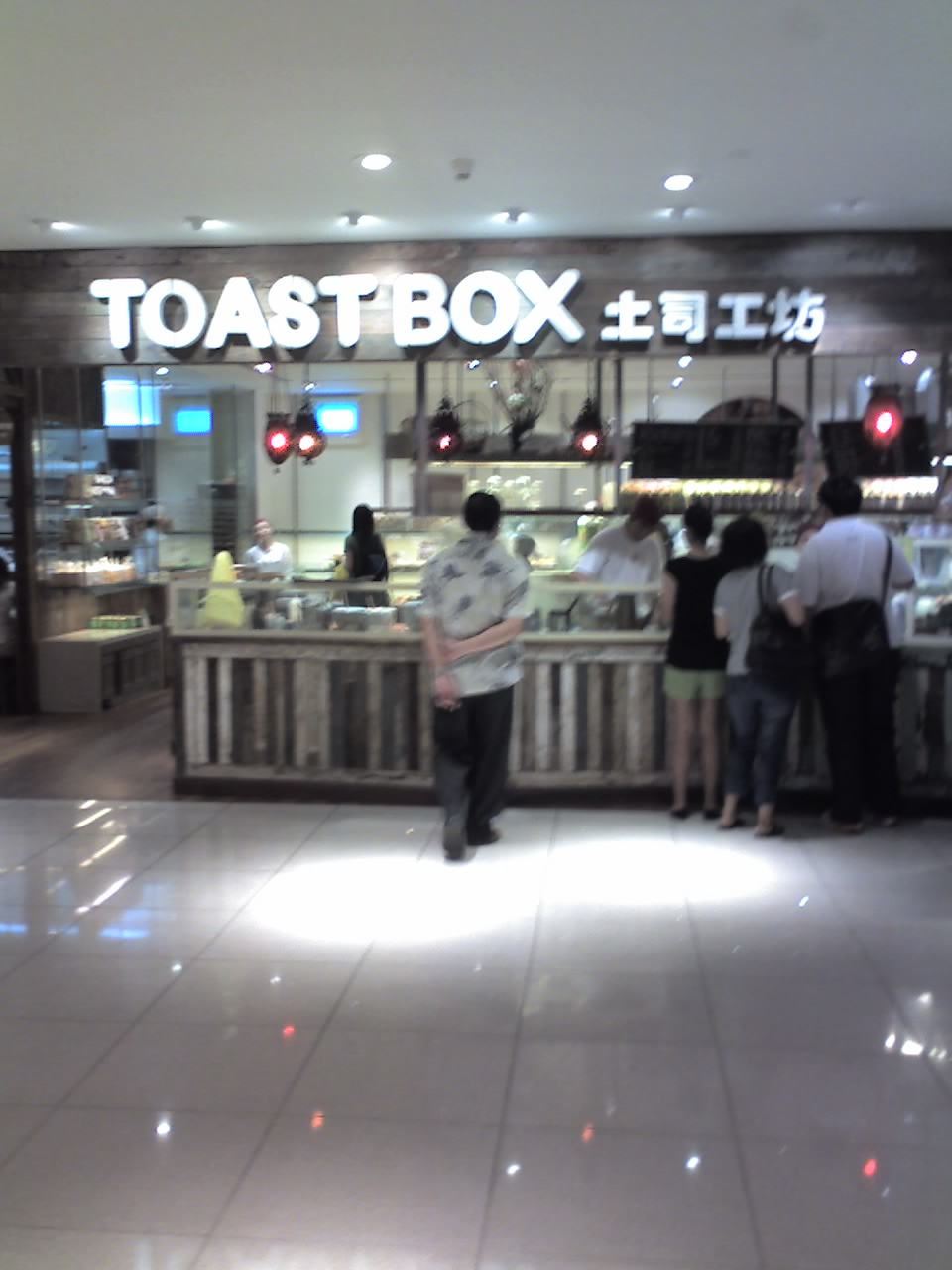 Toastbox outlet at B2 of Vivocity.